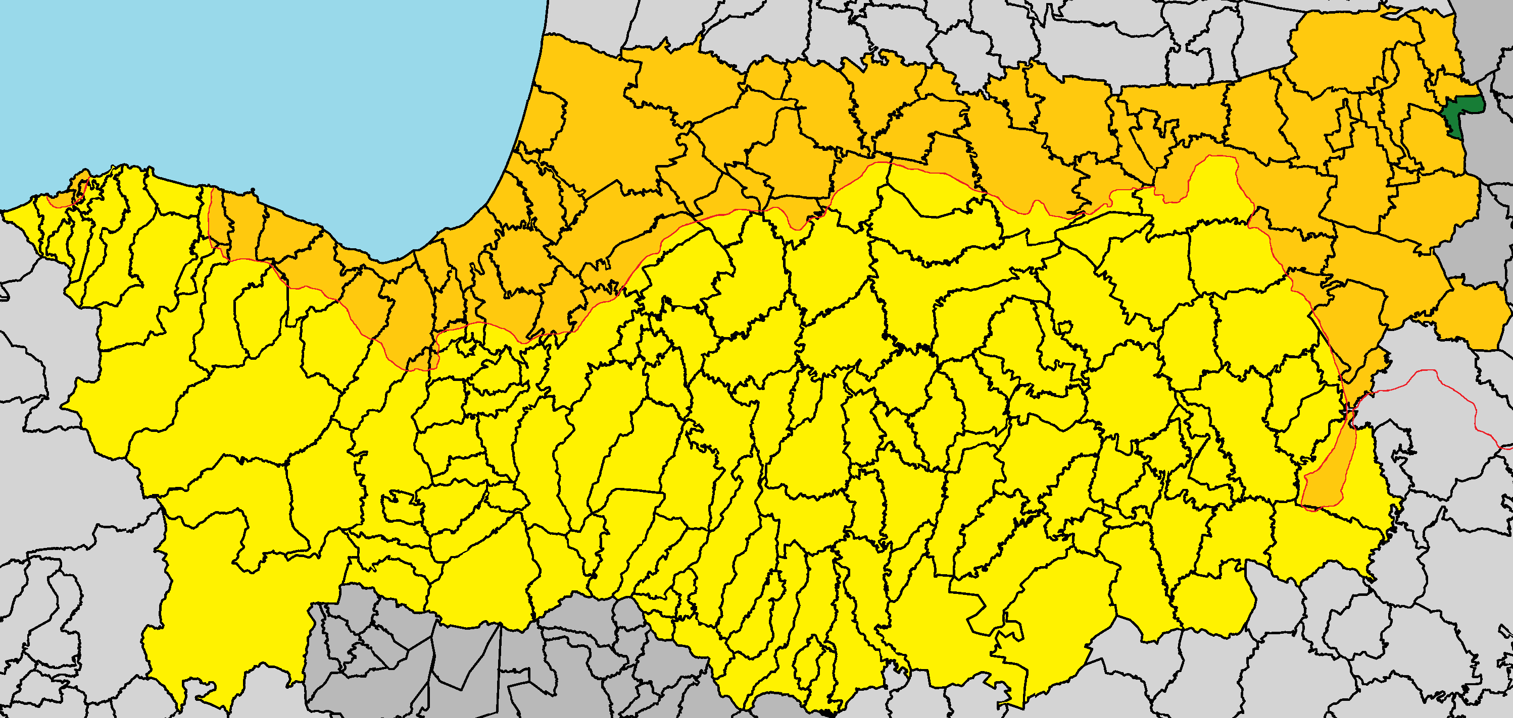 Kourou Monastiri in Nicosia District (de jure).